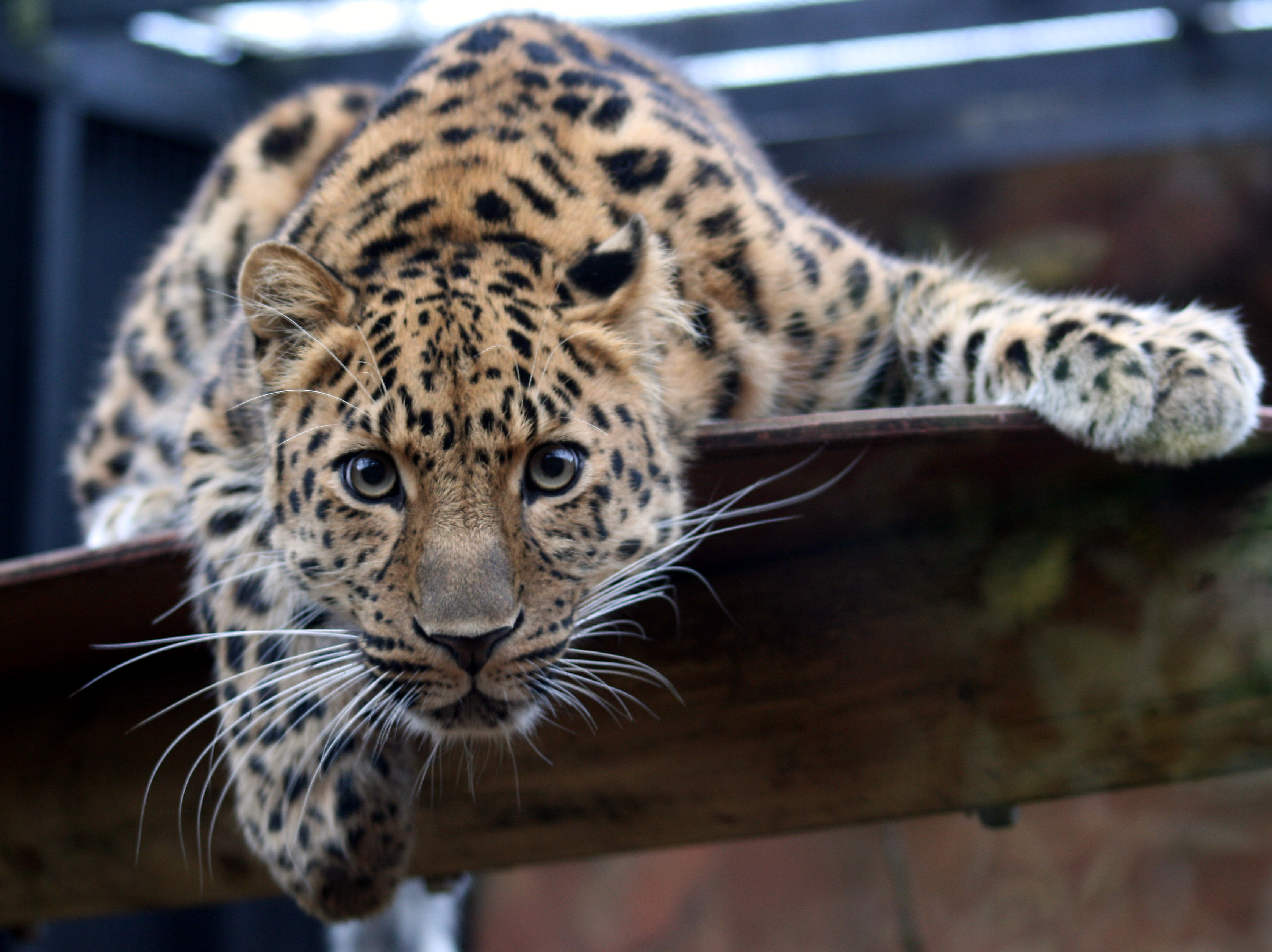 Amur Leopard in the Colchester Zoo